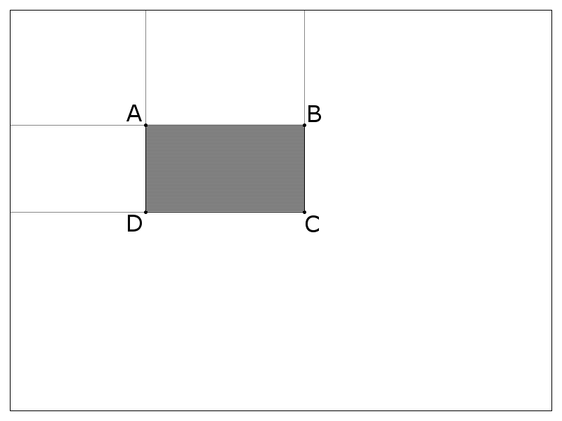 Figure visually demonstrating the evaluation of a rectangle feature with the integral image (used by Viola & Jones in their Robust Real-time Object Detection Framework).